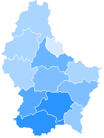 A map of cantons of Luxembourg after mergers of 2006-01-01, colour-coded by population. Population is denoted by seven different shades of blue; in order of increasingly darker shades, the lower bounds (in people) are: 0, 10000, 15000, 20000, 25000, 30000, 50000.